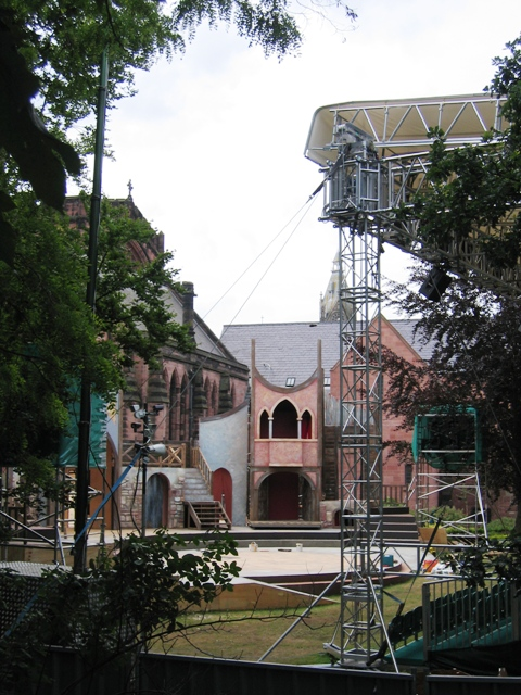 The stage for the 2008 Chester Mystery Plays A view of Cathedral Green which has been taken over for the time being for the production of the 2008 Chester Mystery Plays. This view is from the city walls and the raked seating area is on the right. The cathedral refectory can be seen on the left behind the stage set. The Chester Mystery Plays are only performed every five years.